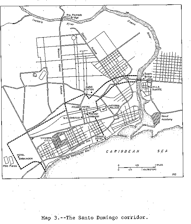 The Santo Domingo Corridor, operation Power Pack, 1965.